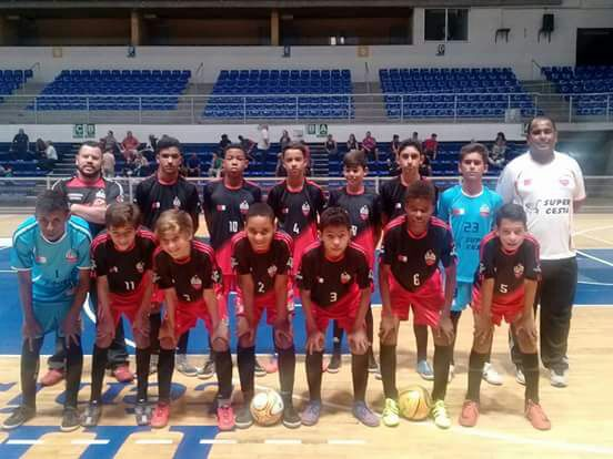 Vilense playing at the Minas Gerais Tennis Club Gym.